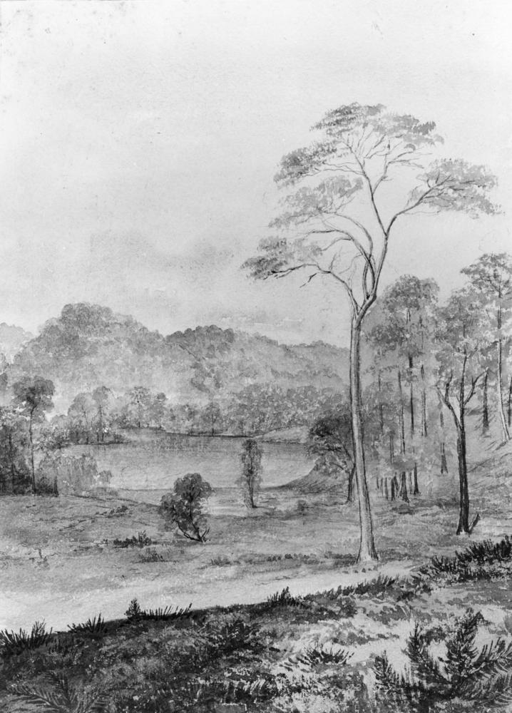 Painting by L. Forbes of the Brisbane River near Chinaman's Flat, 1873 View from the Chinaman's Flat , near Colinton. (Description supplied with photograph).